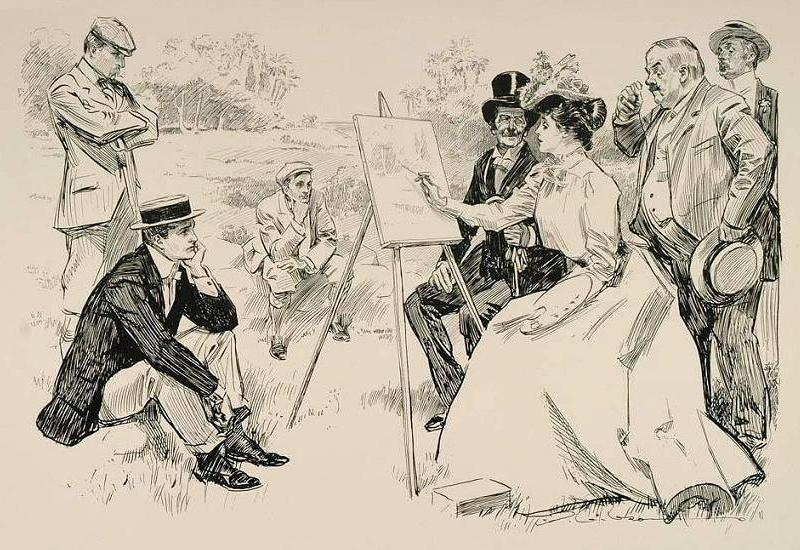 Art Lesson, a 1901 print by Charles Dana Gibson.